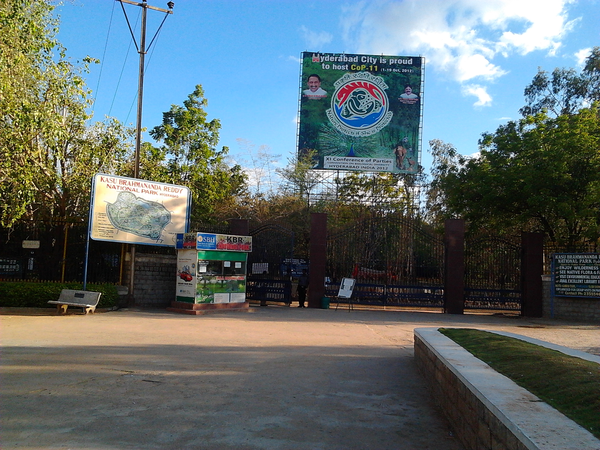 Image shows the entrance of "Kasu Brahmananda Reddy National Park" popularly called as KBR Park is a national park located in Jubilee Hills in Hyderabad, AP, India.